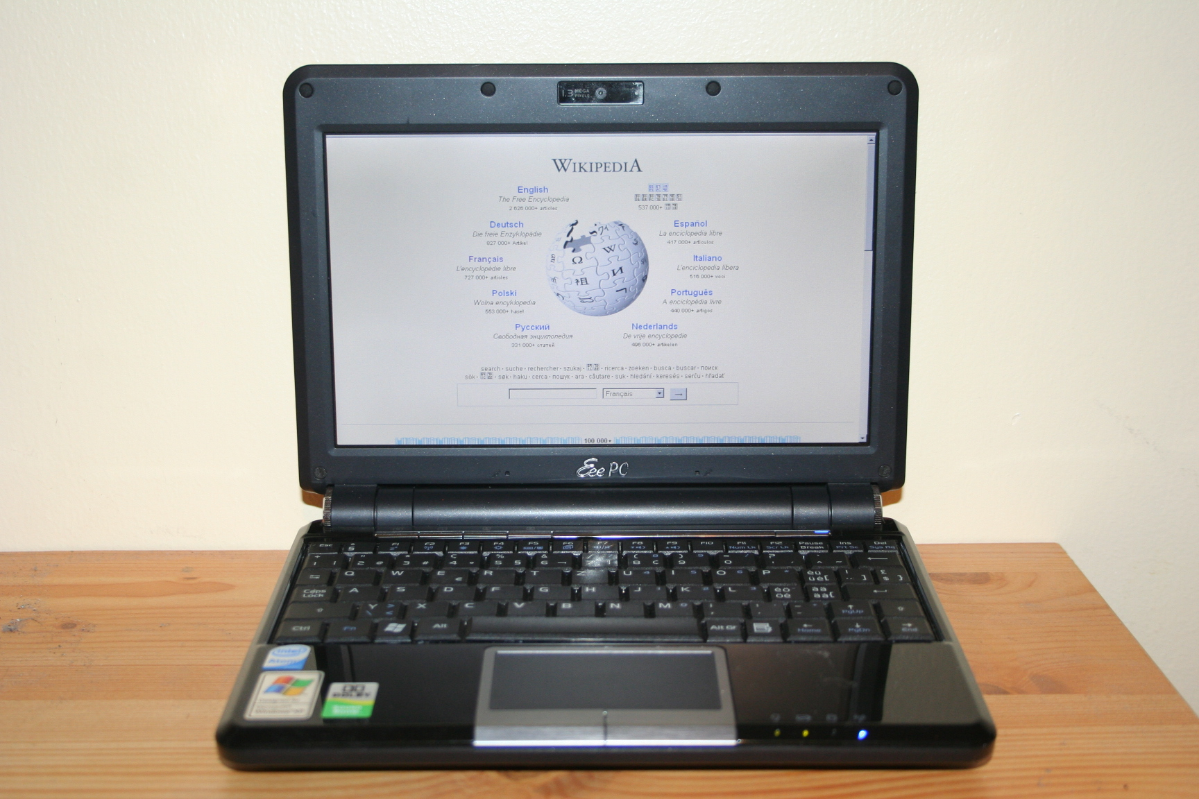 Asus Eee PC 901